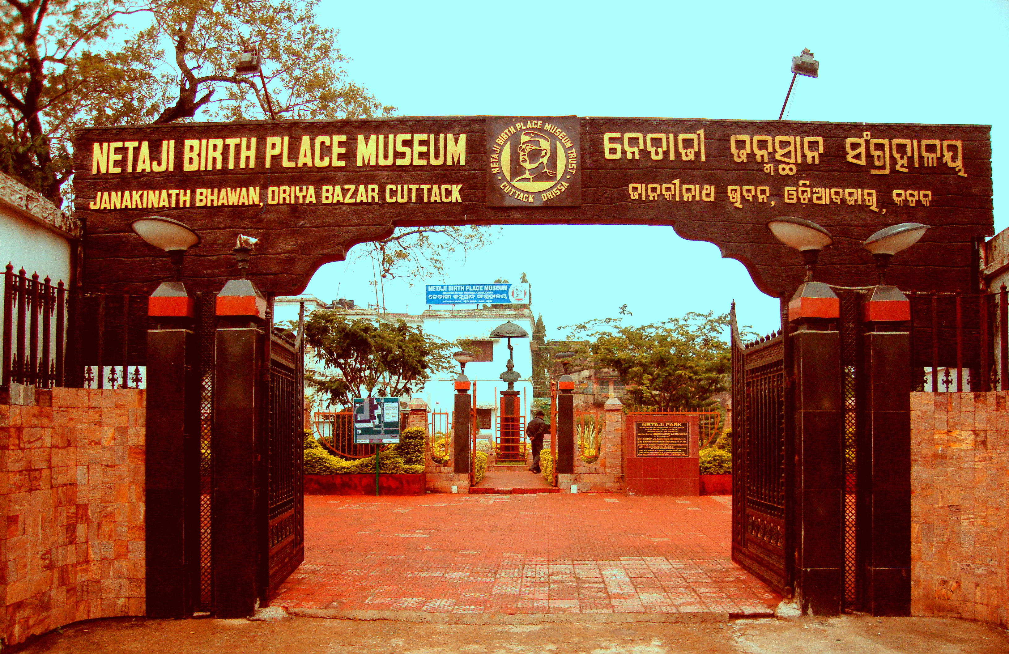 subhash chandra bose museum cuttack